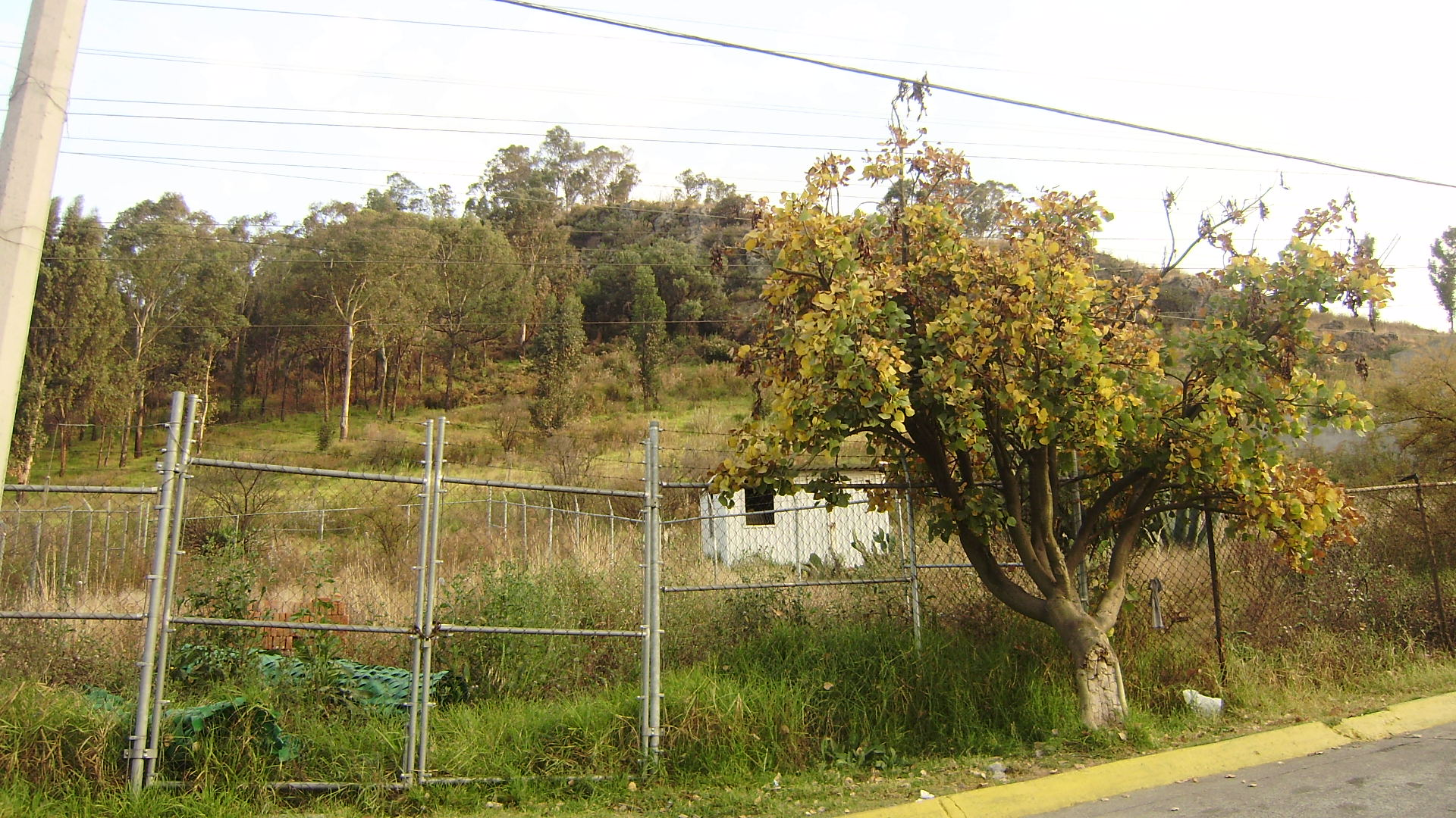 Cerro de Moctezuma in Naucalpan, Mexico City.